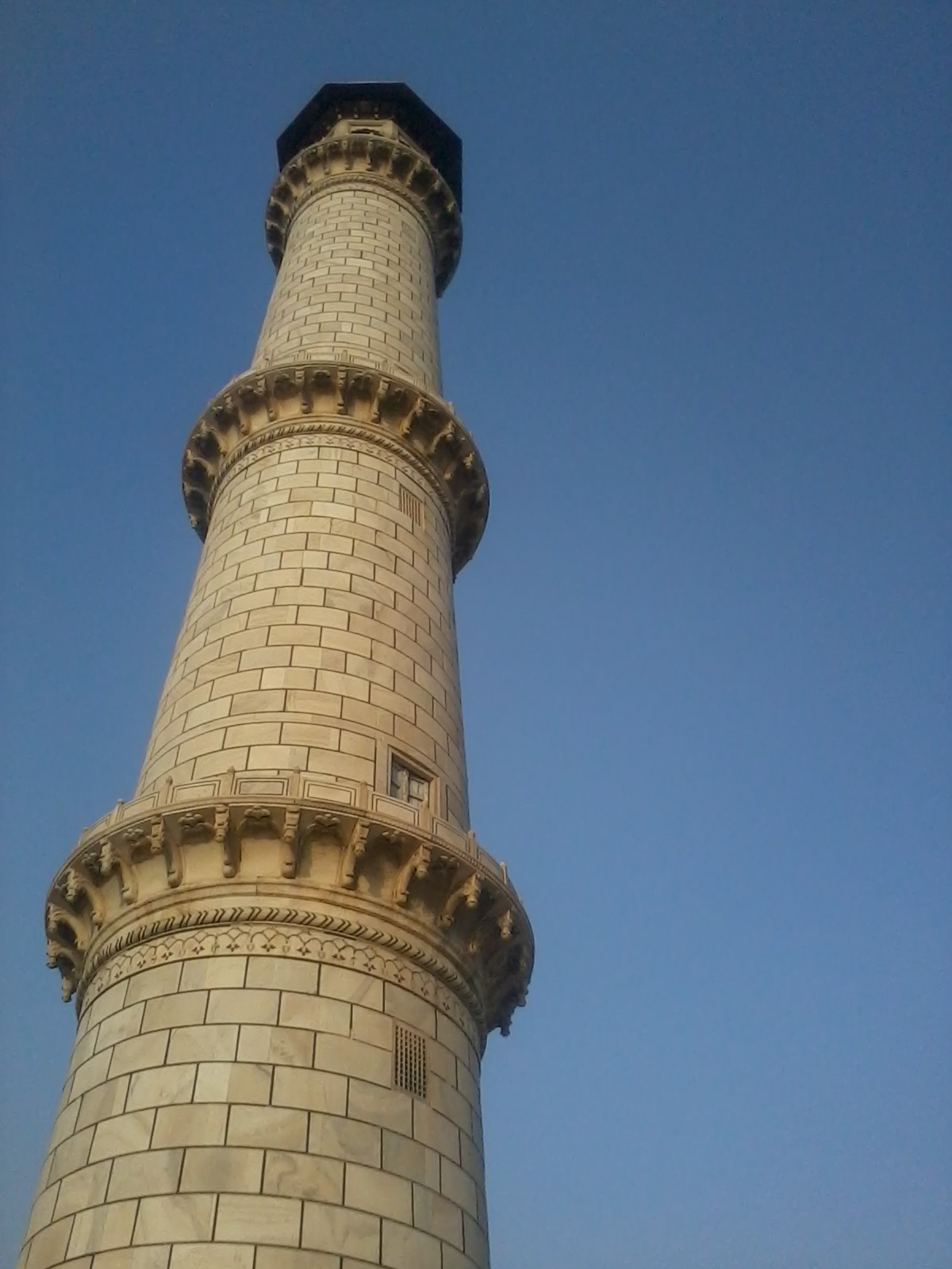 Minar of Tajmahal